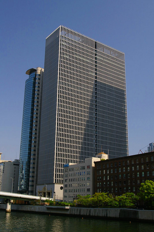 Nakanoshima Daibiru, Osaka City, Japan